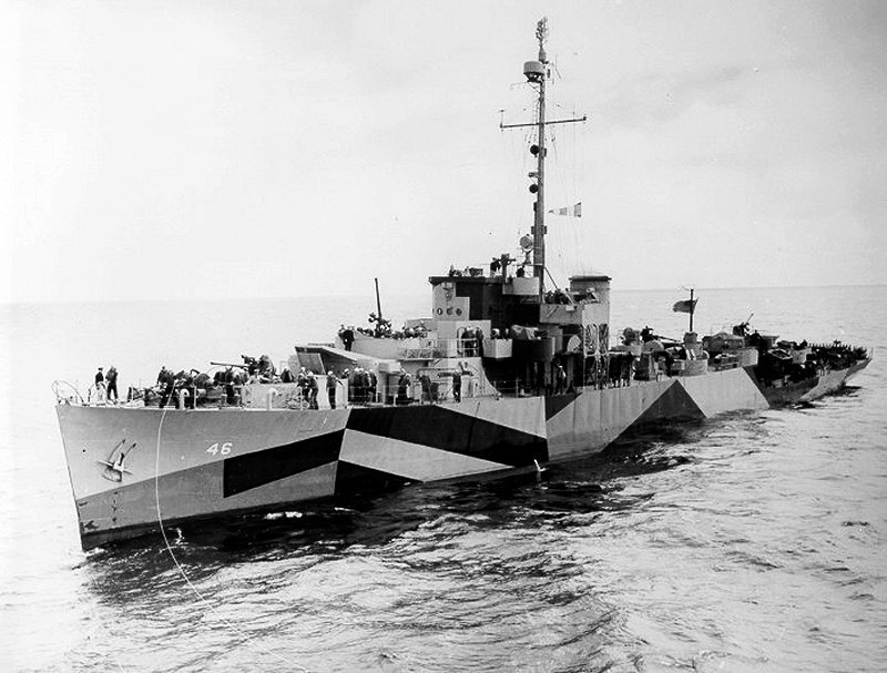 USS Bisbee (PF-46), off Coco Solo, Canal Zone, on 24 April 1944. U.S. Navy photo 80-G-232334 from the National Archives